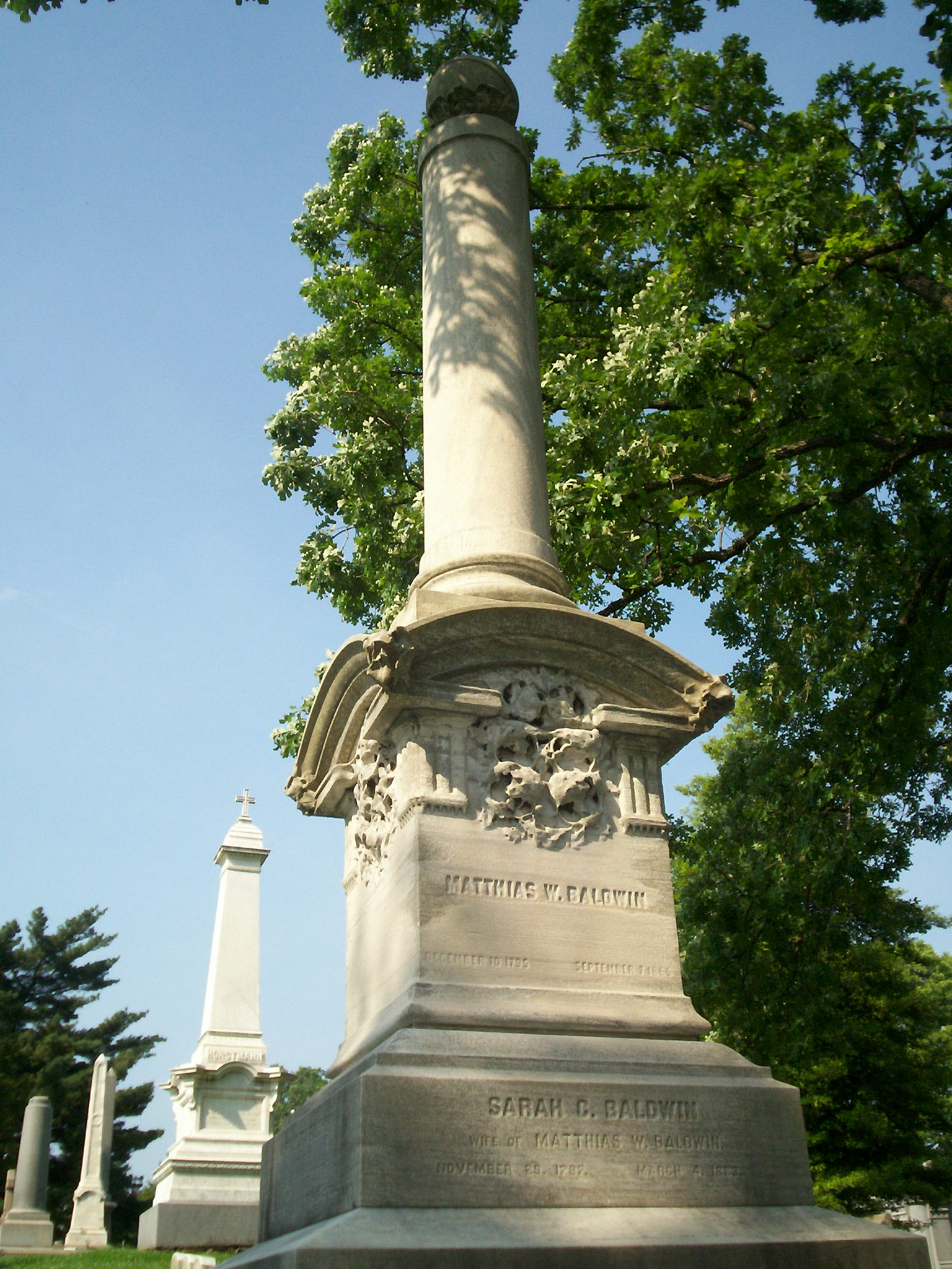 Grave of Matthias William Baldwin, Laurel Hill Cemetery in Philadelphia, Pennsylvania.